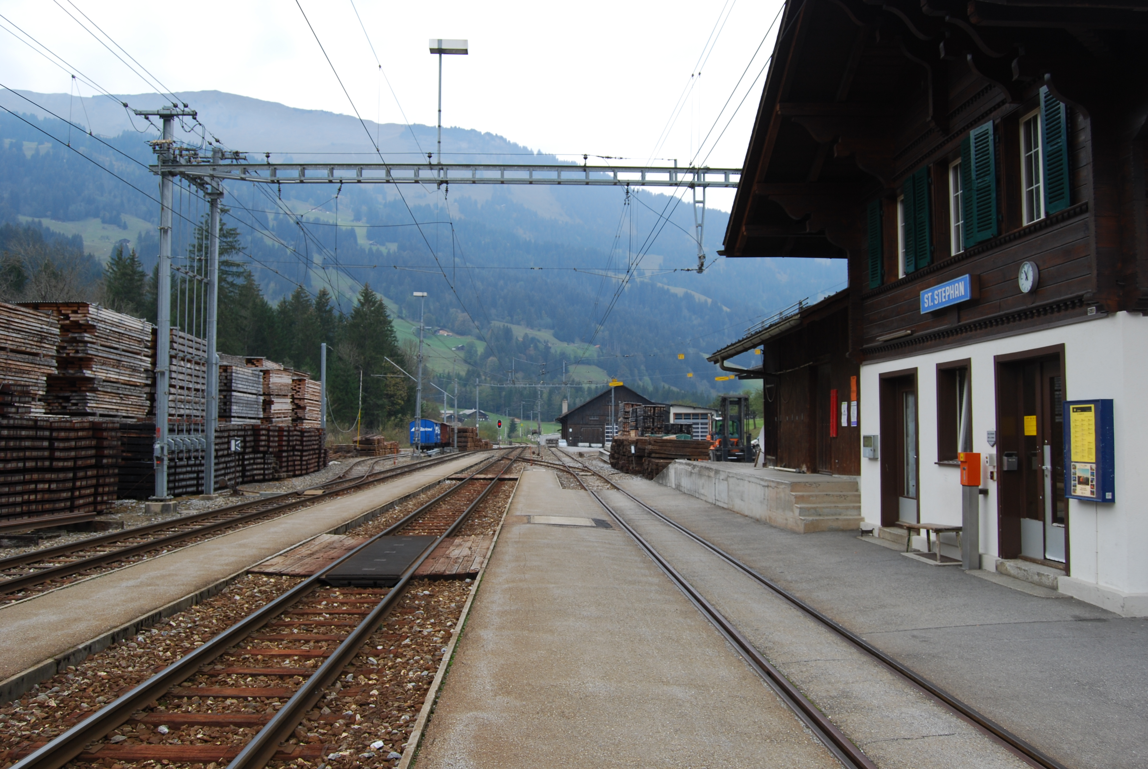 Train station of St. Stephan, canton of Bern, SwitzerlandEsperanto: Stacidomo de Sankt-Stefano, Kantono Berno, Svislando